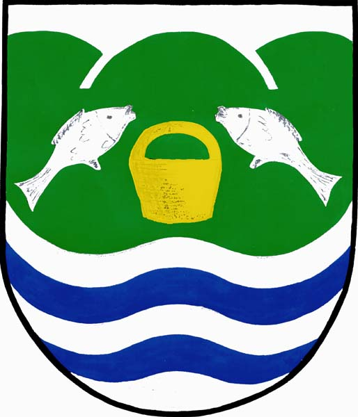 Municipal coat of arms of Zadní Třebaň village, Beroun District, Central Bohemian Region, Czech Republic.